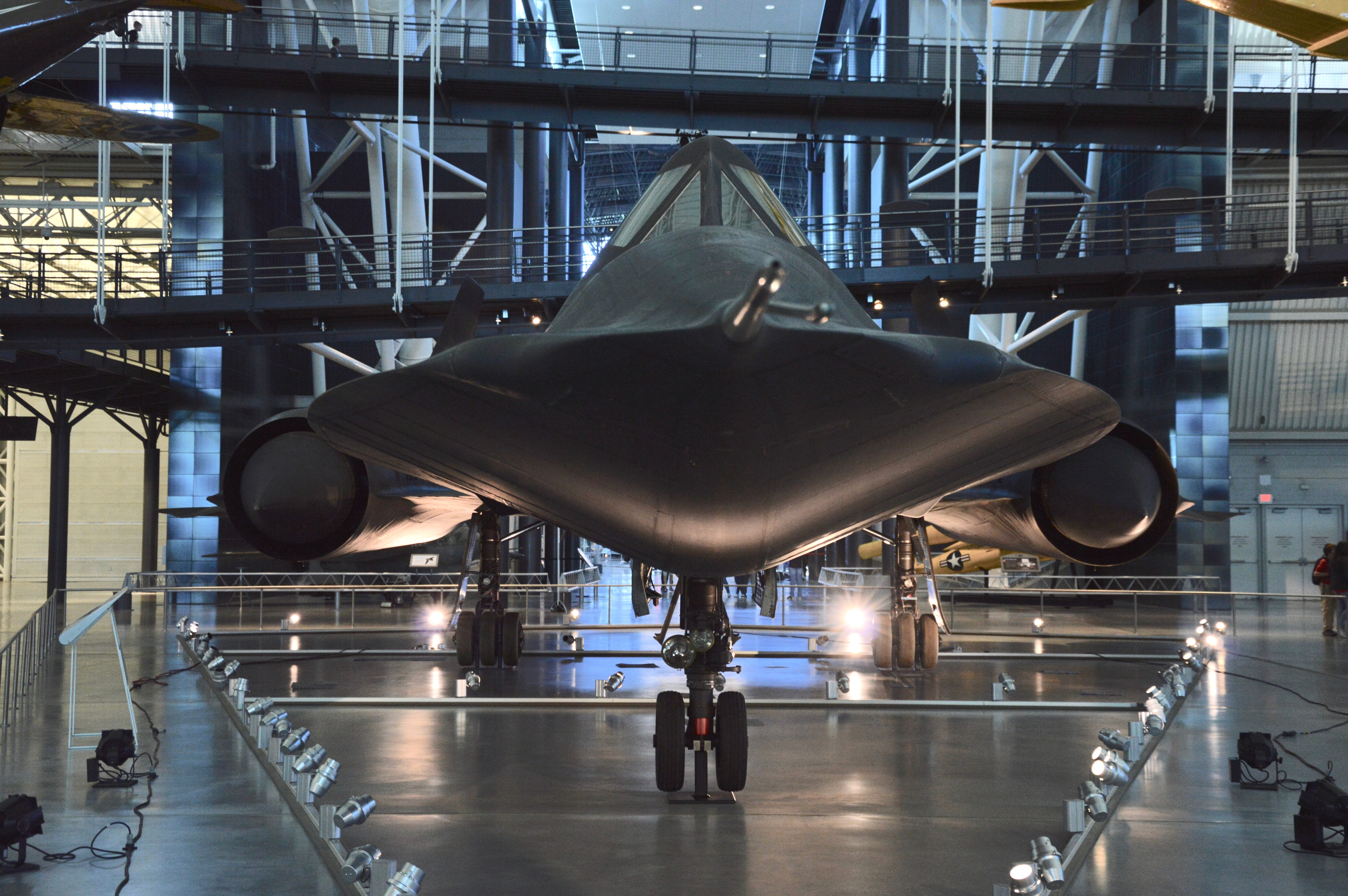 Lockheed SR-71 Blackbird long-range reconnaissance aircraft, Steven F. Udvar-Hazy Center, Chantilly, Virginia